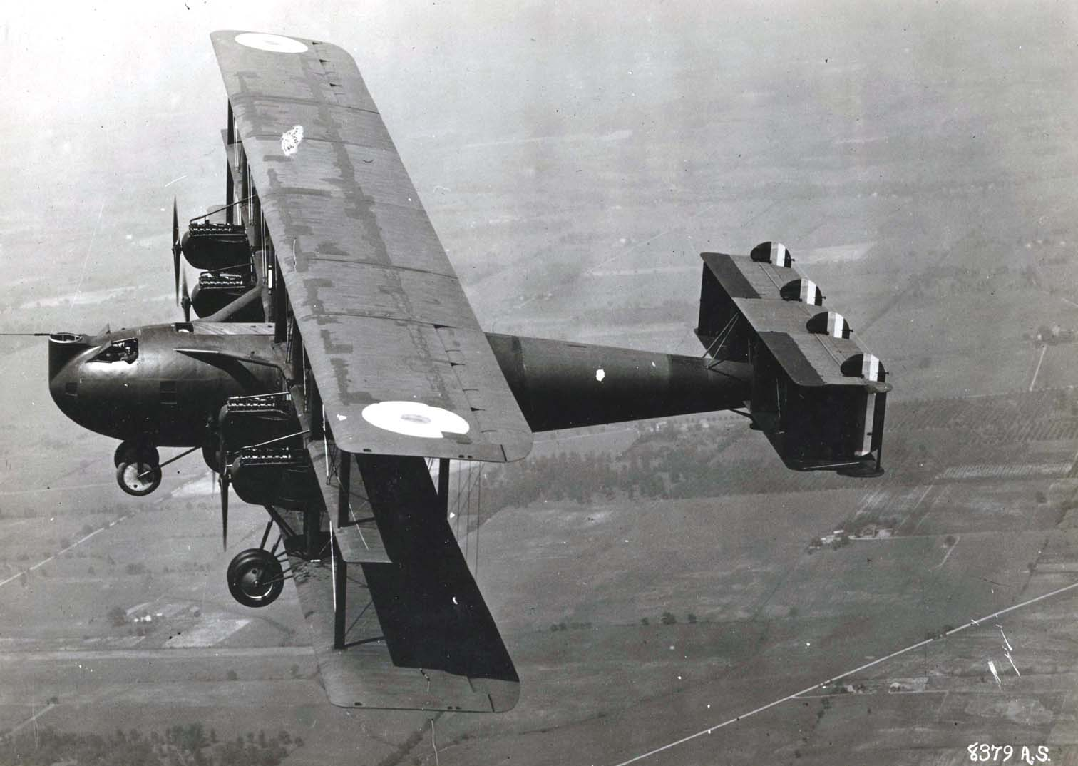 Witteman-Lewis XNBL-1 "Barling Bomber" in flight.